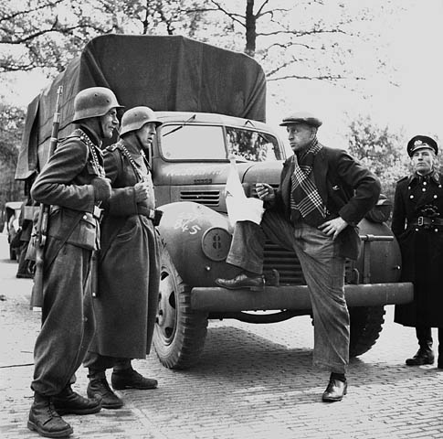 German soldiers guarding food dump established in forward area, talking to one of the Dutch drivers who is to distribute the food in a Canadian truck. Place: Wageningen, Netherlands (vicinity) Place of creation: No place, unknown, or undetermined Extent 1 photograph ; 57 x 57 mm Negative Film B/W - safety film Language of material: English Conditions of access: Graphic (photo) 90: Open Nil Graphic (photo) Copy negative PA-134416 90: Open Item no. (creator) 51292-1 Other accession no. 1967-052 NPC Terms of use Credit: Alexander M. Stirton / Canada. Dept. of National Defence / Library and Archives Canada / PA-134416 Restrictions on use: Nil Copyright: Expired Additional name(s) Photographer: Stirton, Alexander Mackenzie, 1915- Photographer: Stirton, Alexander M. Additional information Series title Army Subject heading 1. Mil. - Personnel - Foreign - German - 1945/05/03. 2. Mil. - Ops. - Land - 1945/05/03. 3. Netherlands- Wageningen. Source Government Other system control no. DAPDCAP5887 MIKAN no. 3191643